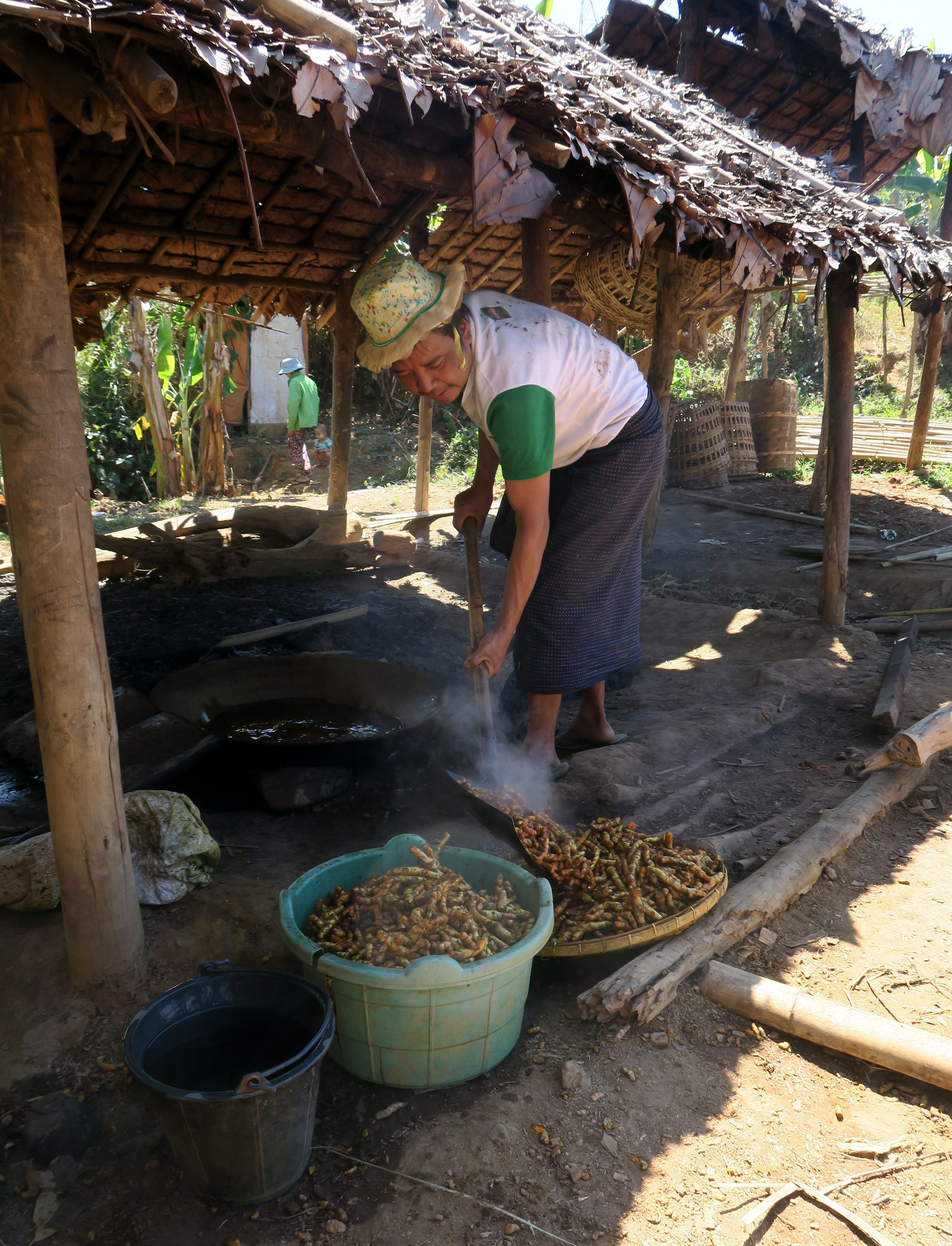 Cleaning turmeric rhyzomes with boiling water in Myanmar.